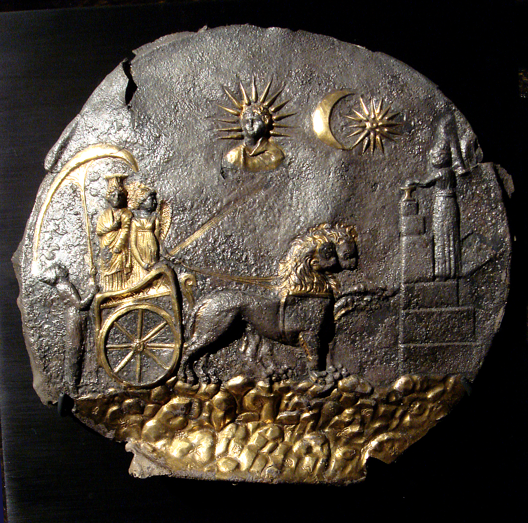 Plate depicting Cybele, a votive sacrifice and the sun God. Ai Khanoum, 3rd century BCE (National Museum of Afghanistan, photographed when it was part of a temporary exhibition at Musée Guimet, Paris, in 2006). "One of the oldest antiquities found at Aï Khanum, this spectacular disk depicts Cybele, the goddess of nature, and Nike, the personification of Victory, on a chariot drawn by two lions through a mountainous landscape. It is a remarkable example of hybrid Greek and Oriental imagery that typified the arts of Hellenized Asia. Ancient Near Eastern features include: the parasol—a royal symbol—here held by a priest; the stepped altar; the shape of the chariot; the scalloped pattern indicating mountainous terrain; and the moon crescent and the star. The cult of Cybele originated in Anatolia but had long been adopted by the Greeks. Also borrowed from the Greek tradition are the representation of the winged Nike, the bust of the sun god Helios, and the naturalistic rendering of the drapery and the lions. The overall composition of the scene, however, lacking any indication of perspective, is more typical of Near Eastern art. Ceremonial Plaque depicting Cybele on her chariot, early 3rd century B.C., Afghanistan, Aï Khanum, Gilded silver; D. 1/25–2/25 in. x Diam. 9 7/8 in. (1–2 mm x 25 cm), National Museum of Afghanistan, Kabul, 04.42.7" [1]